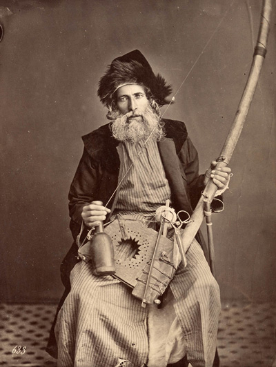 Studio Photograph by Felix Bonfils 1880,of Wool Carder, or Rabbi of Jerusalem,both of which appear on different prints of the photo by Bonfils!